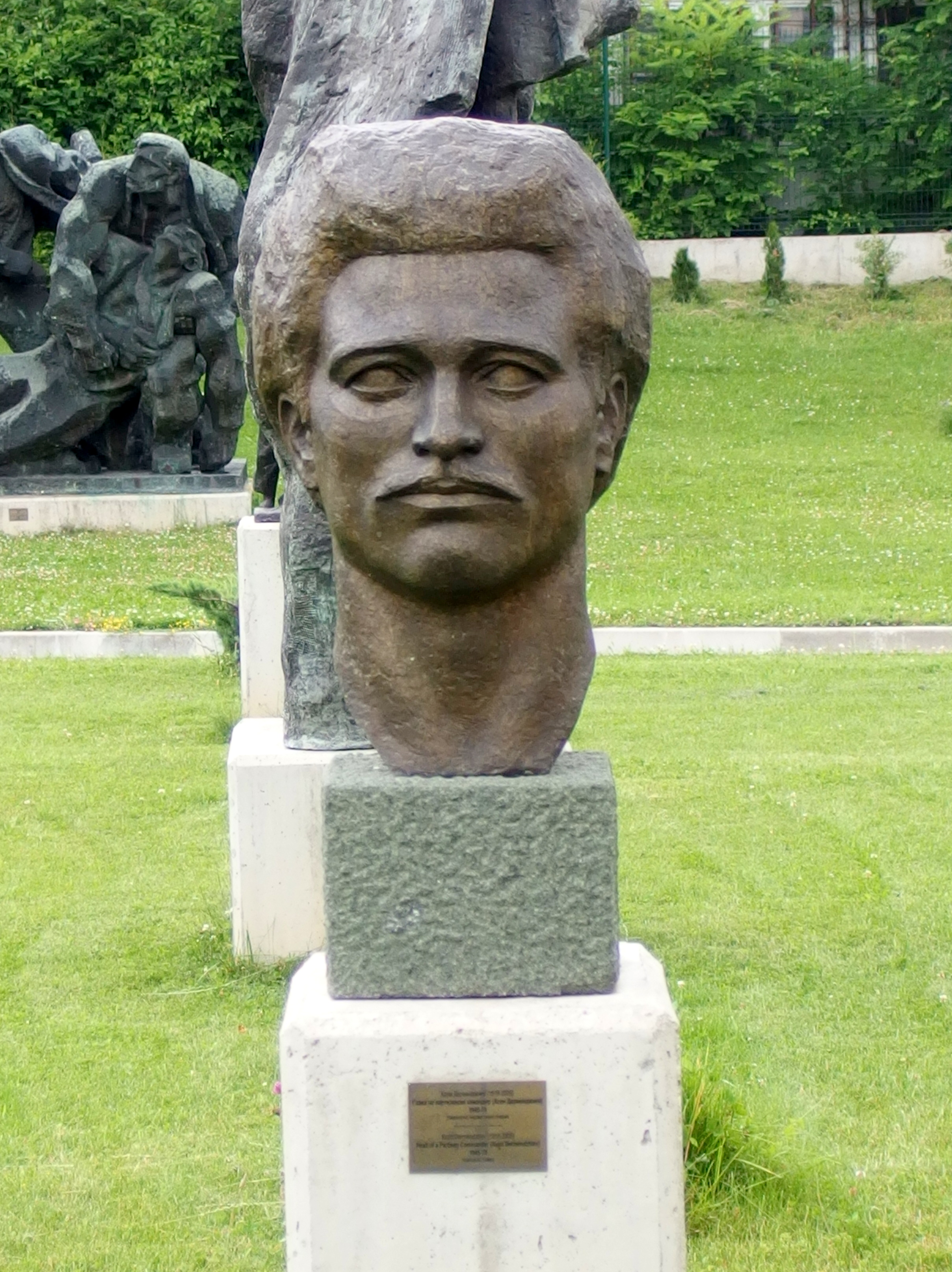 2014-06-15 in the Museum of socialist art (Sofia).